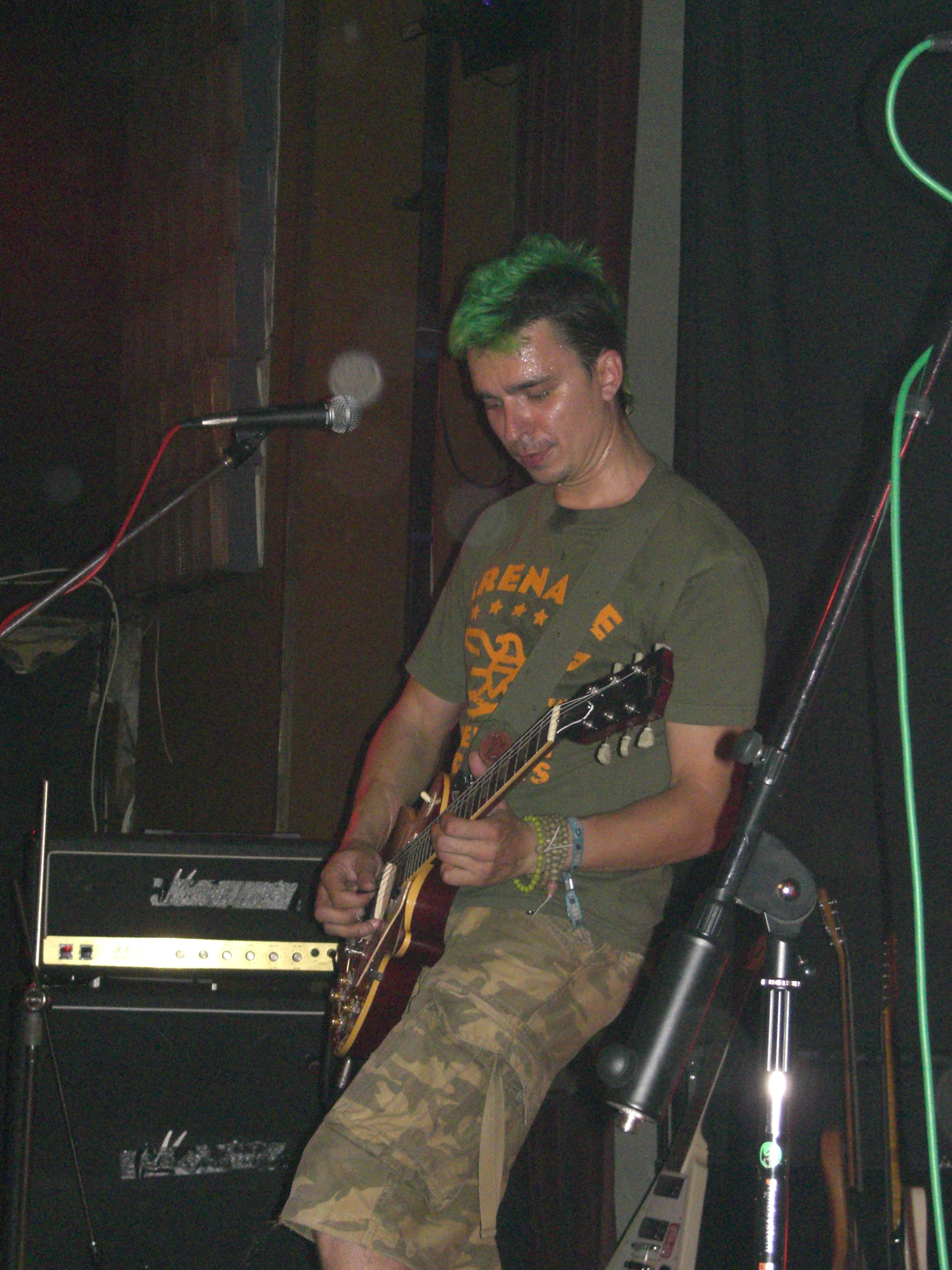 Punk music grup Plexis.